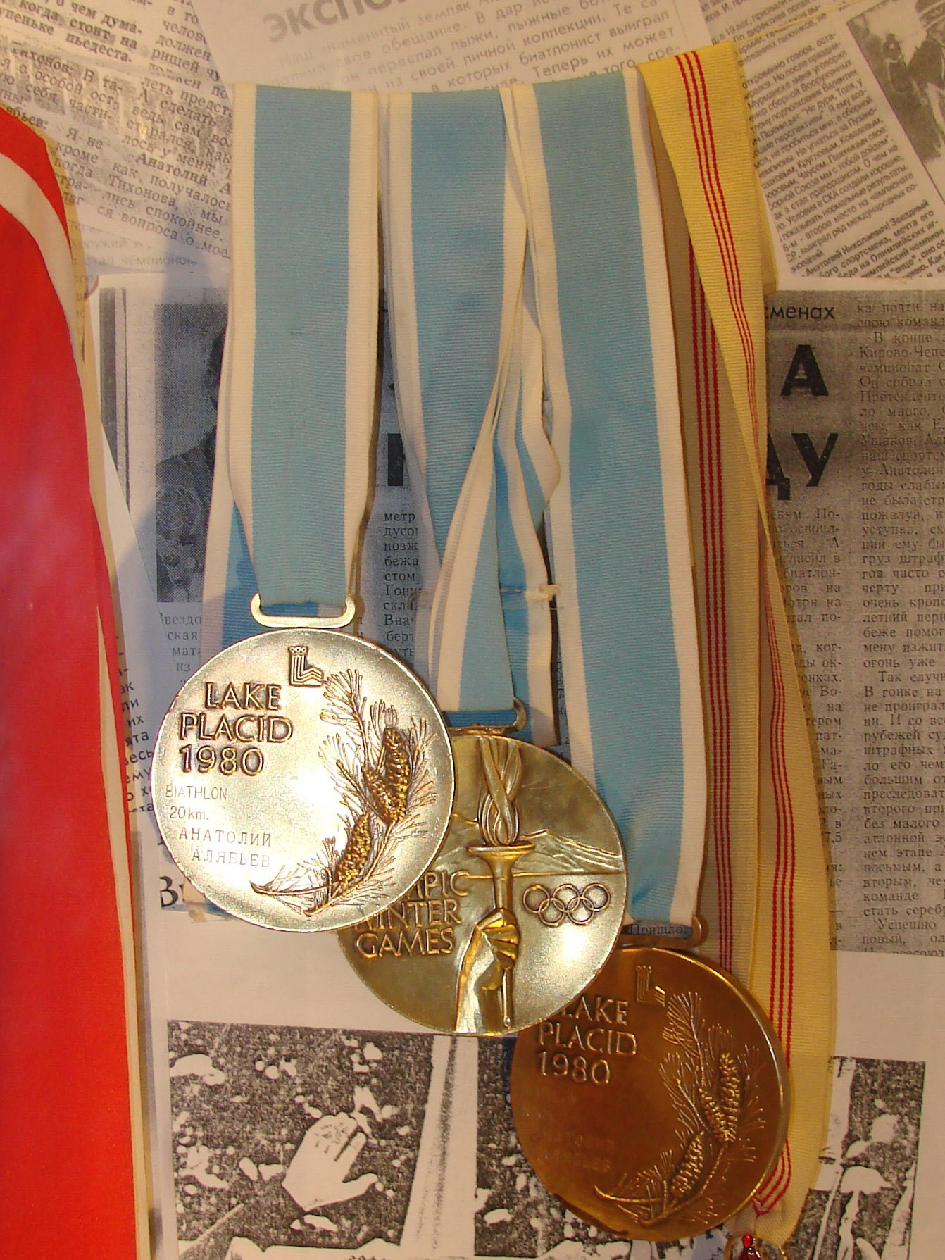 Anatoly Alyabyev, two gold and bronze Olympic medals from XIII Olympic Winter Games 1980 year